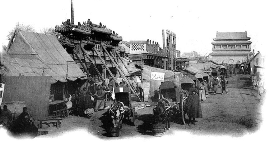 Image from La Chine à terre et en ballon.